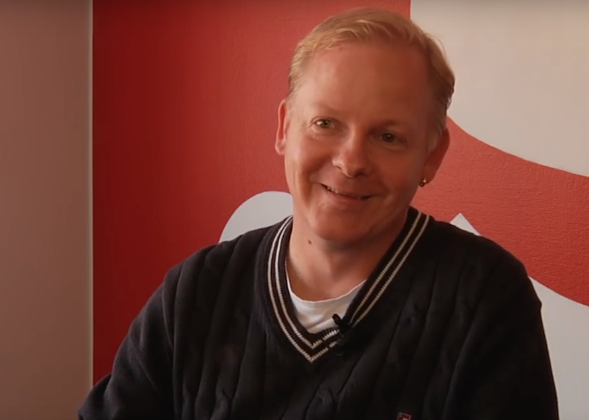 Rickard Ericsson, Swedish entrepreneur, programmer and founder of the community Lunarstorm. Screenshot from a video interview made by Internetmuseum.